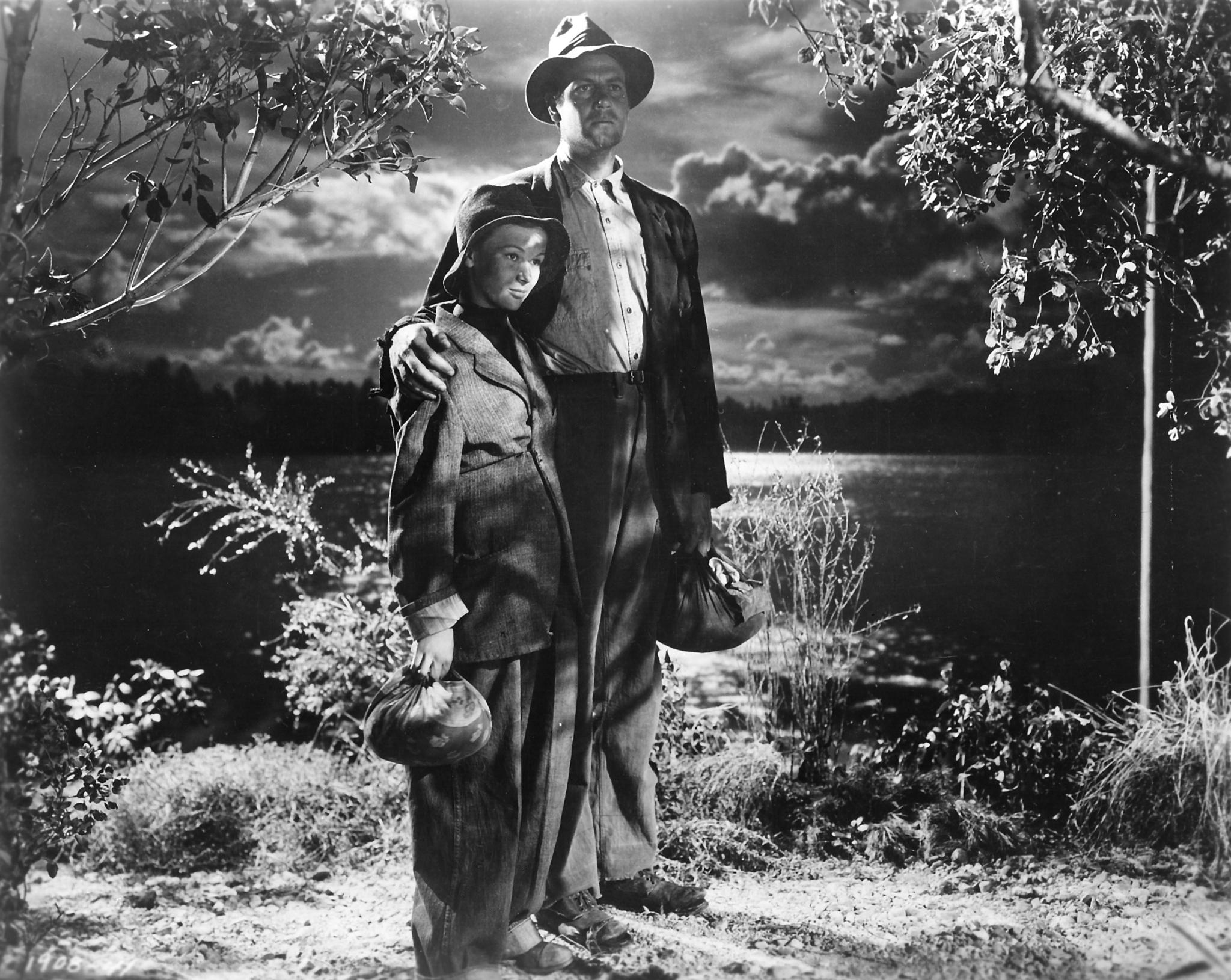 Promotional still from the 1942 film Sullivan's Travels, published in National Board of Review Magazine